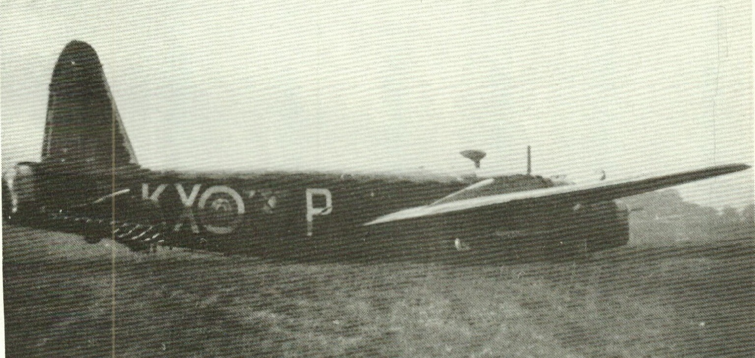 Jiří Fína - Wellington KX-P after return Berlin 8.11.1941